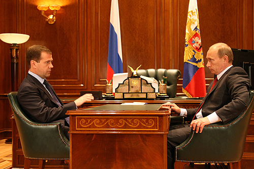 GORKI, MOSCOW REGION. With Prime Minister Vladimir Putin.